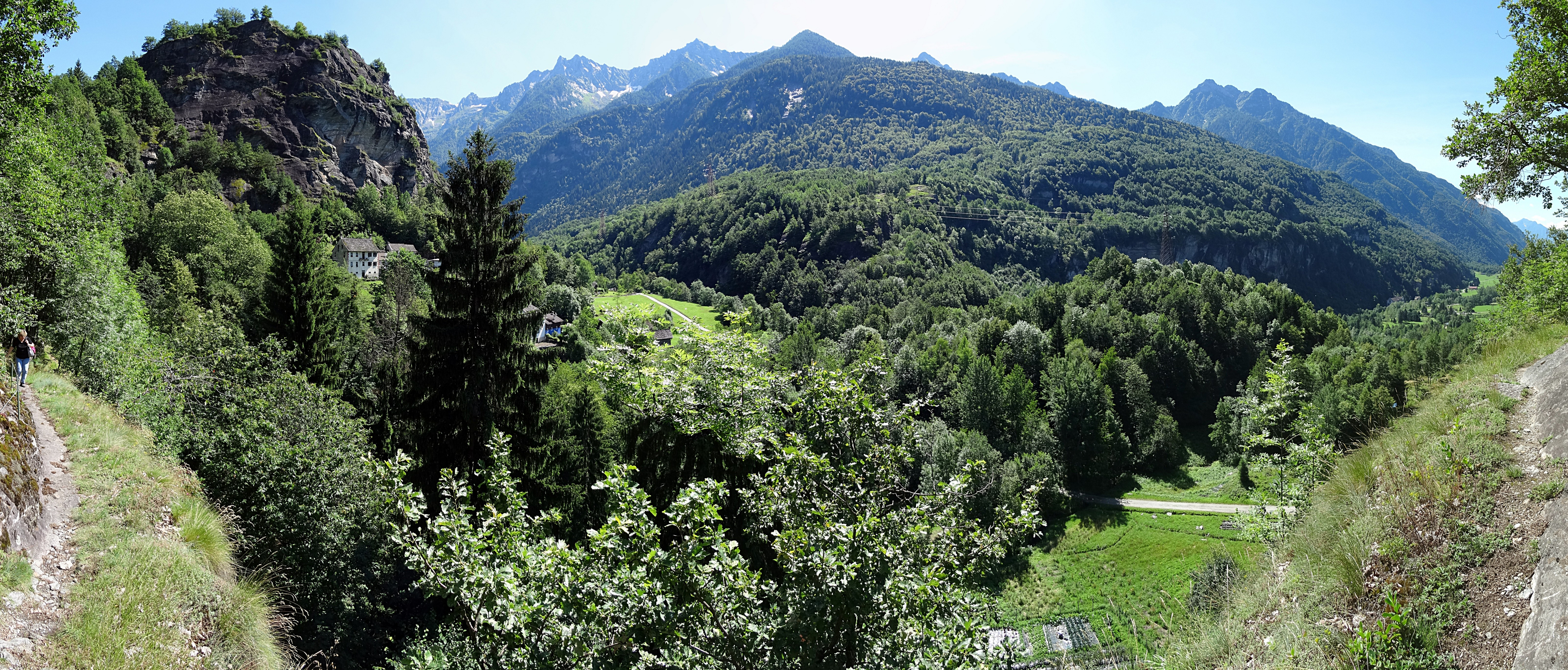 hiking area gorges of Uriezzo